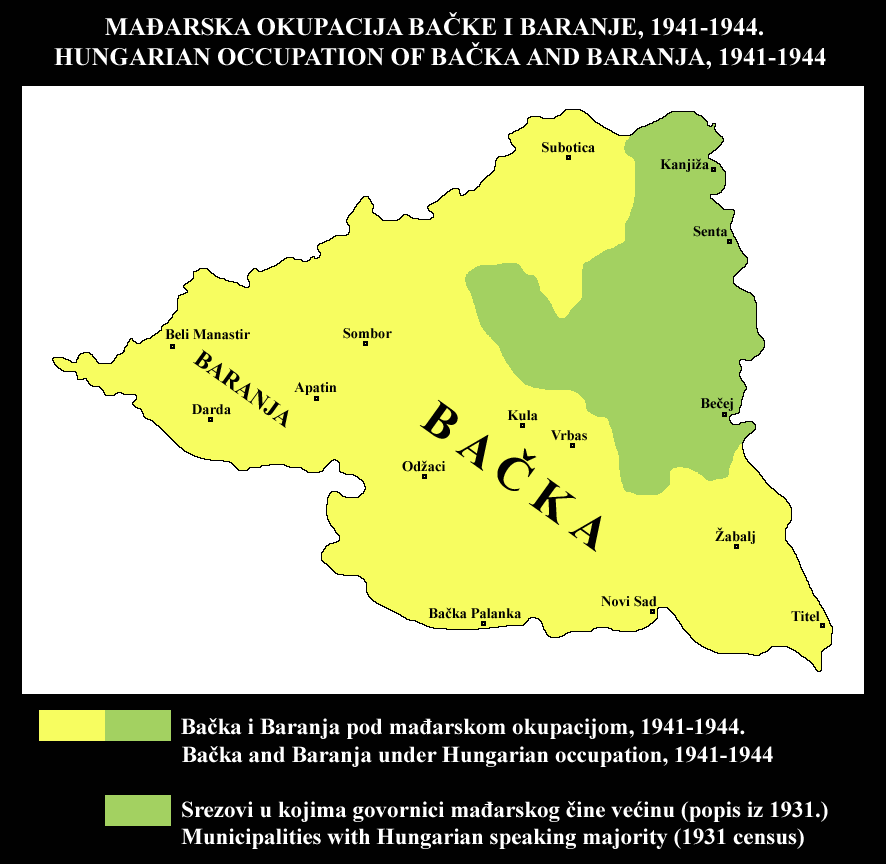 Hungarian occupation of Bačka and Baranja, 1941-1944. Area of occupation is compared with area of municipalities where speakers of Hungarian were in majority according to 1931 census. Population whose native language was not Hungarian formed the majority of inhabitants in most parts of this territory that was occupied by Hungary. I used 1931 census data from this Yugoslav territories occupied by Hungary in WW2 could be seen here